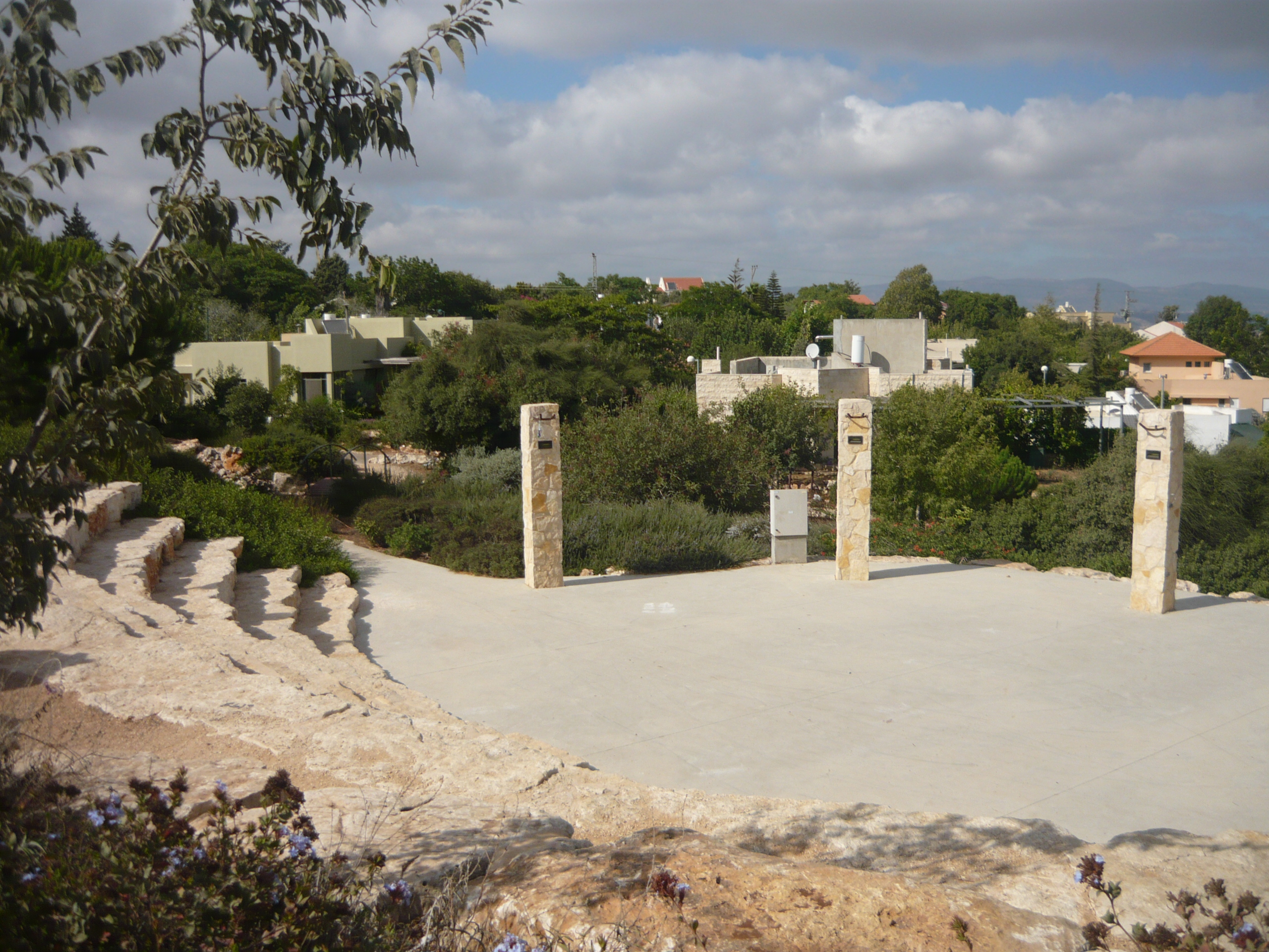 Amphitheater in Koranit אמפיתיאטרון בקורנית